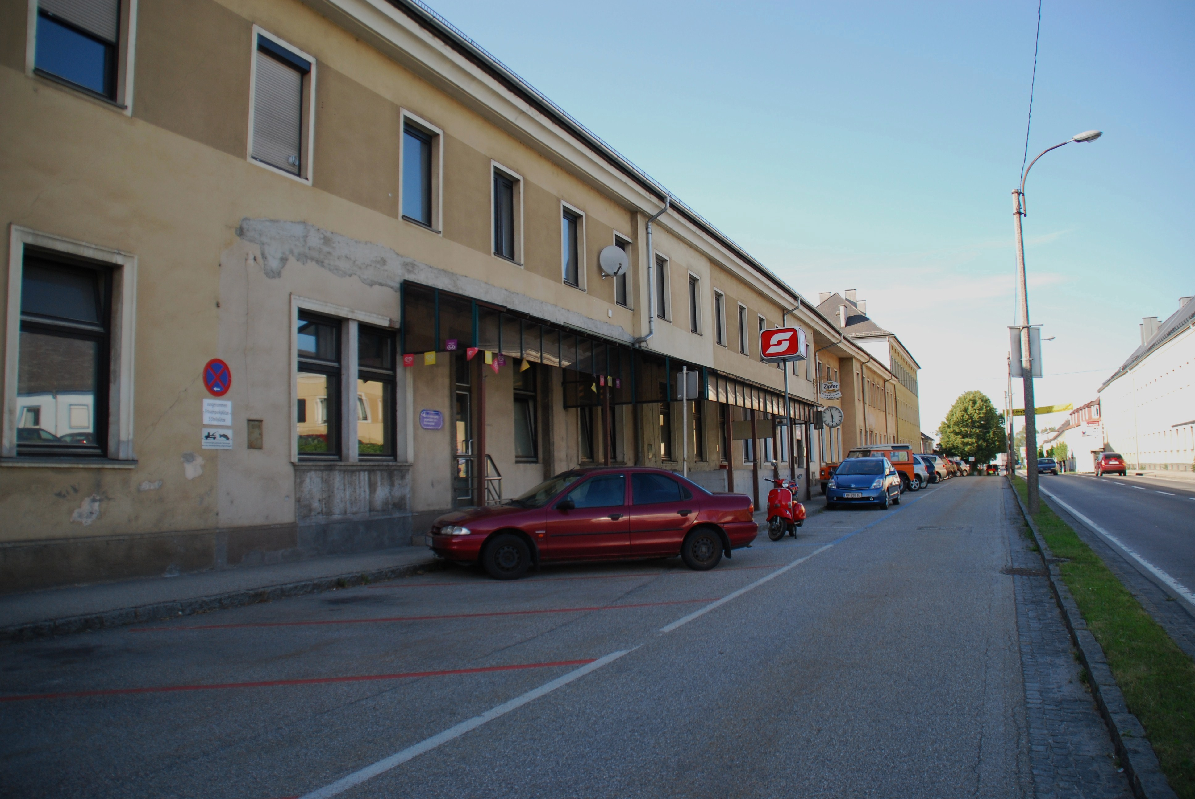 Train Station Attnang-Puchheim (Austria)